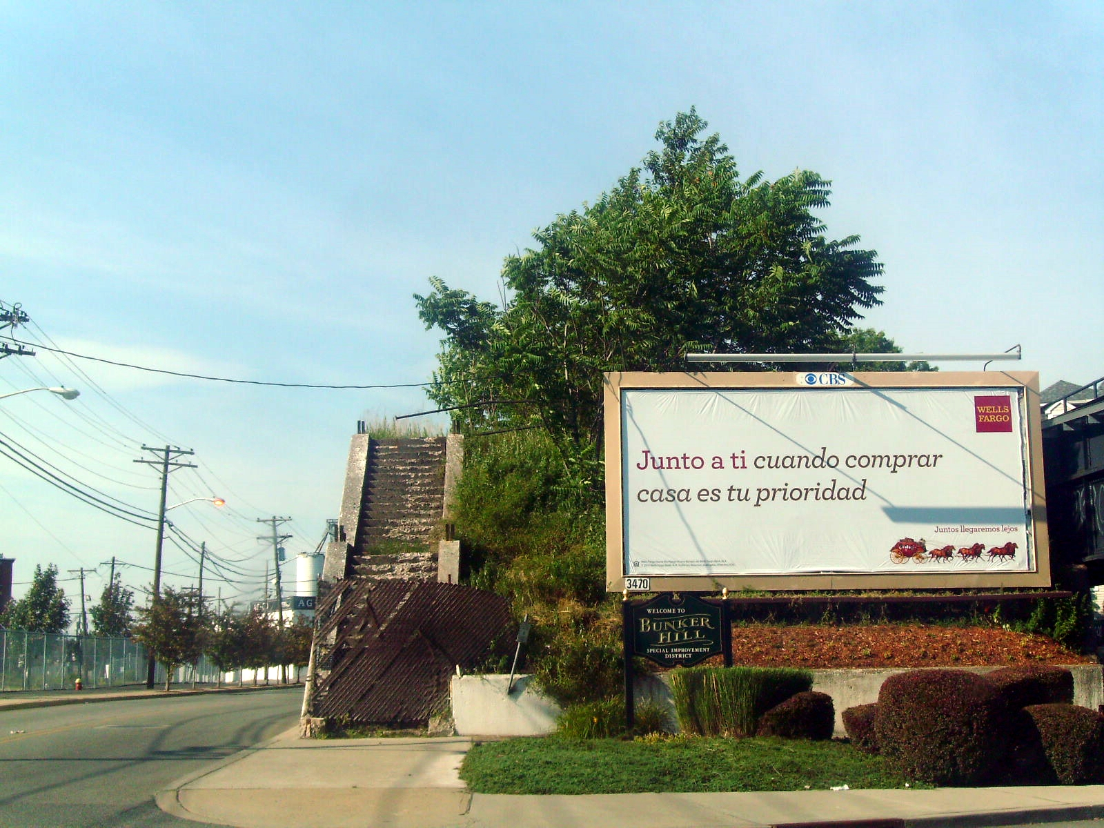 The River Street Erie Railroad station in Paterson, New Jersey.